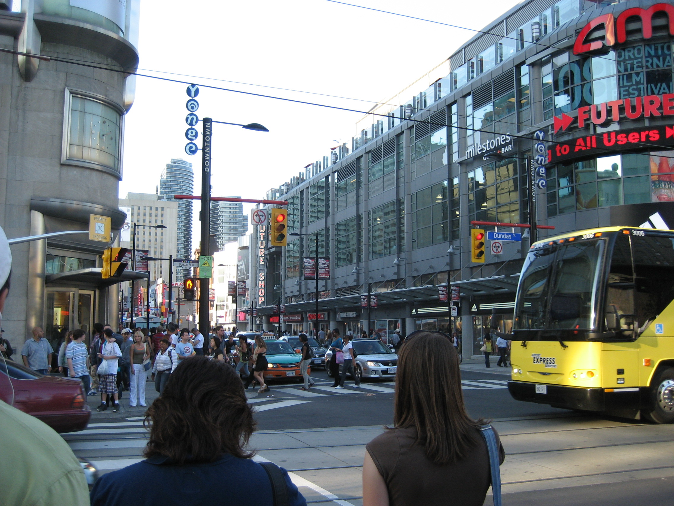 Yonge & Dundas Streets, Toronto, Ontario, Canada.